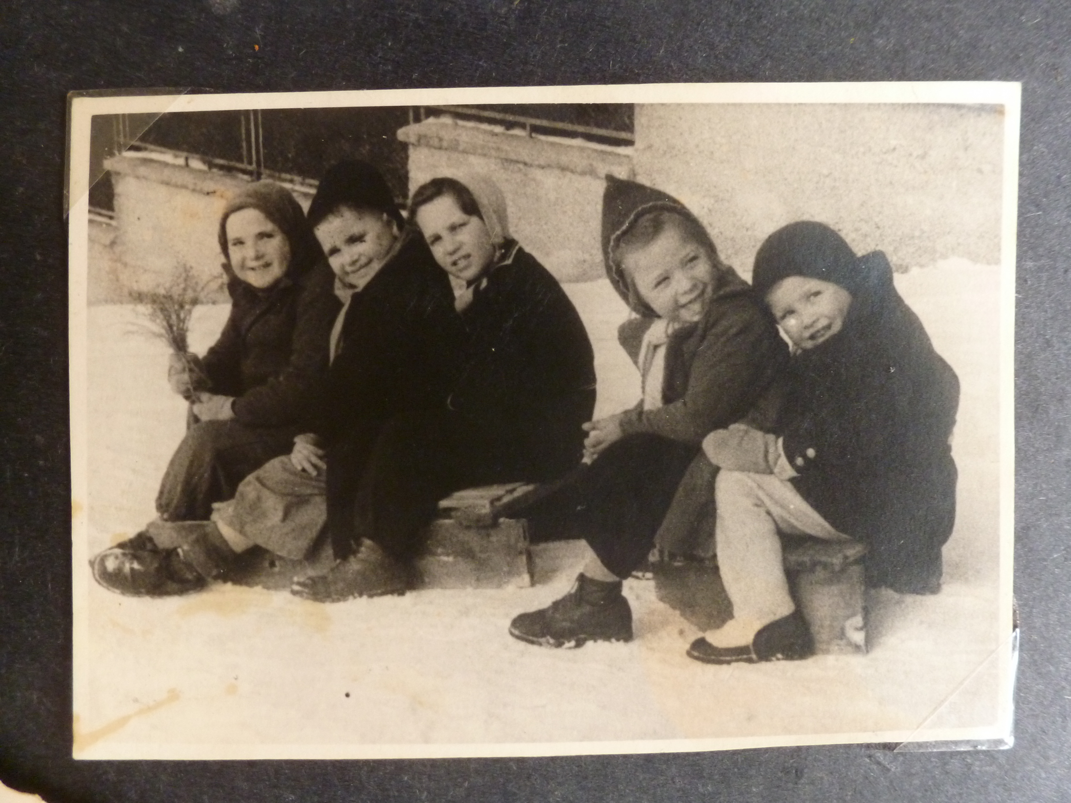 Sciesopoli: children